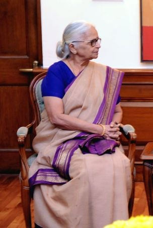 Indian state Goa Governor Mridula Sinha